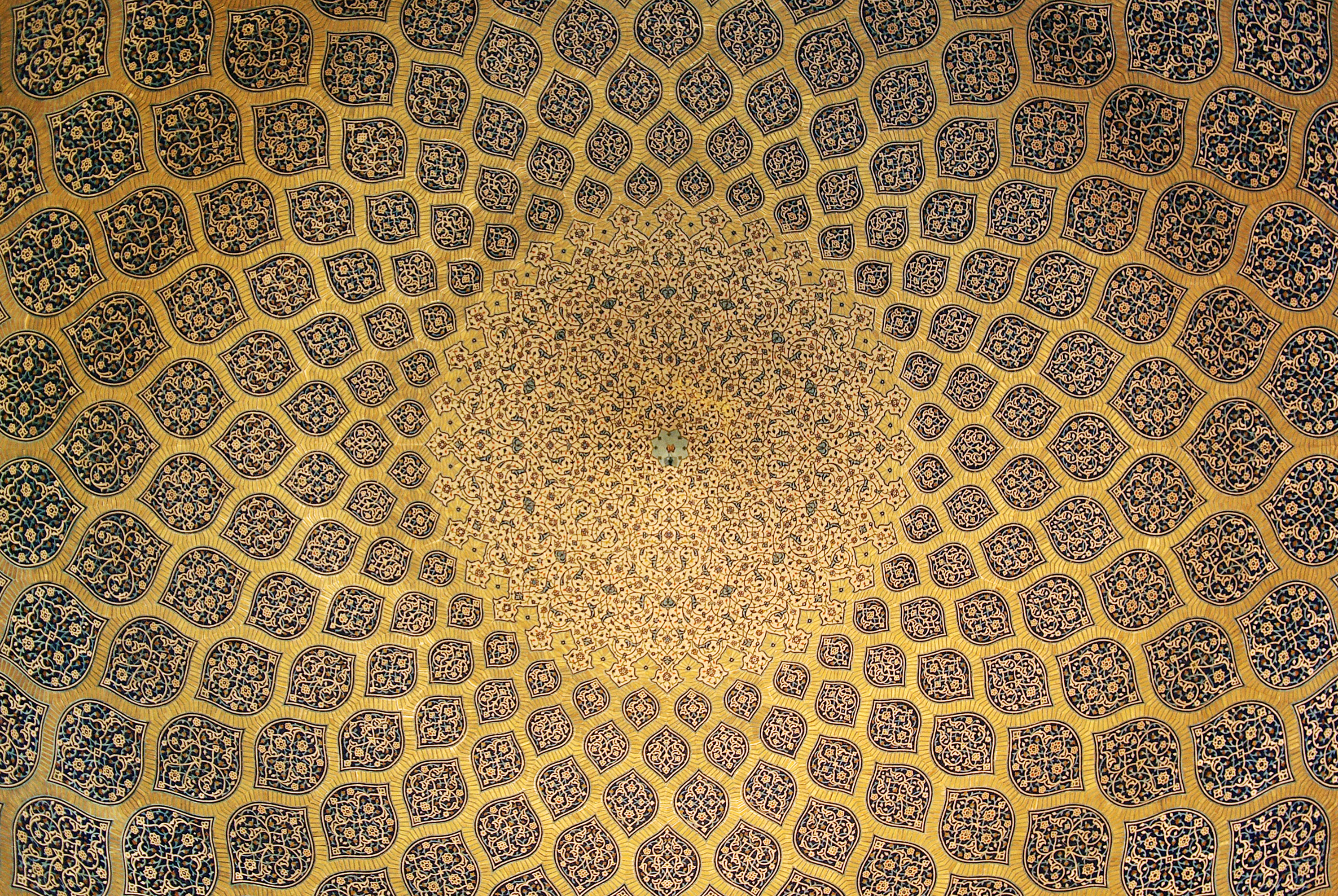 The interior side of the dome of the Sheikh Lotf-Allah mosque in Isfahan, Iran